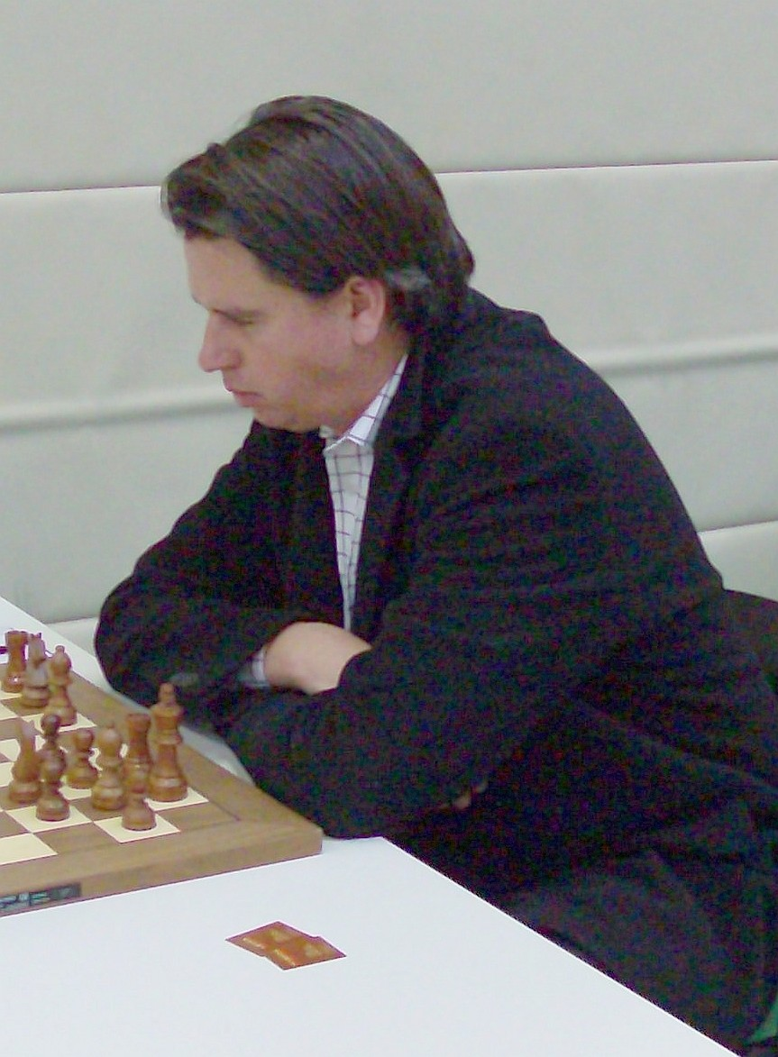 Sebastian Siebrecht, chess player from Germany